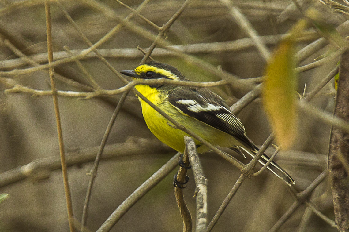 Tumbes Tyrant - South Ecuador_S4E9643